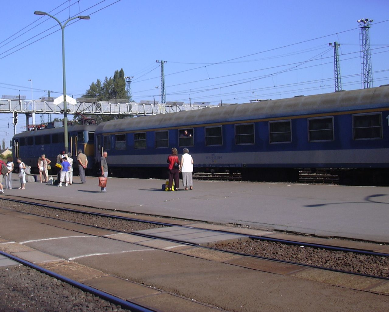 Train in Cegléd station, Hungary